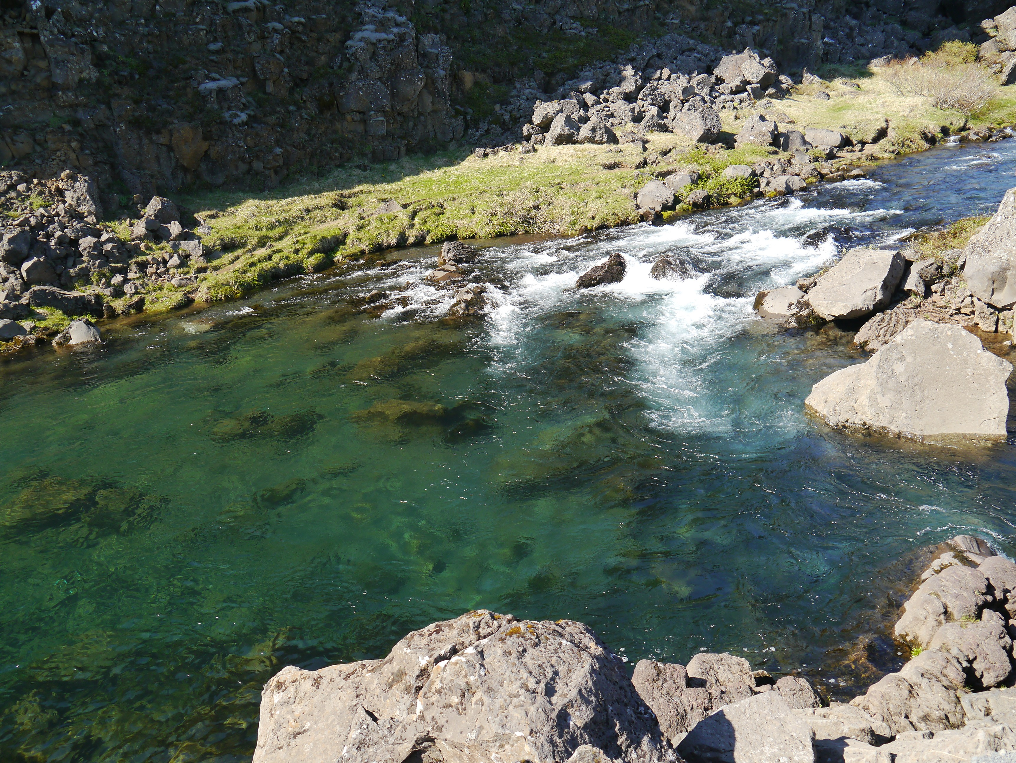 here the Eurasian and the North American Continental Plate meet each other at Allmanagjá Canyon, Thingvellir National Park